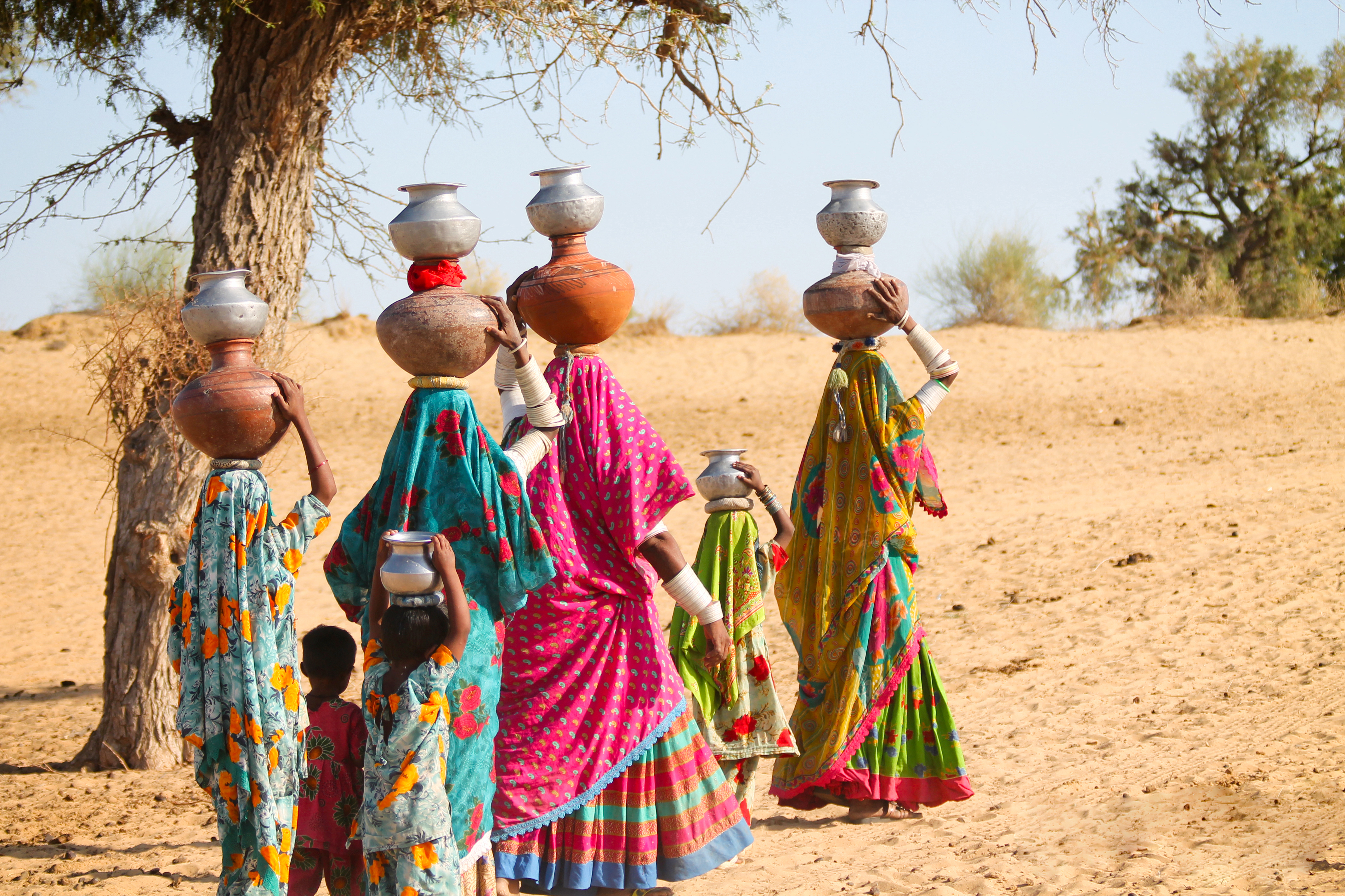 women are going back to their houses after taking water in pots; Tharparkar desert, Sindh, Pakistan